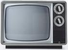 Based on [1] (PD from NASA). Version of Image:Union jack tv.png but without Union Jack flag image. Changed from original version to how it is presently by Wikiwoohoo. For use with Television stub template or copyright image tags regarding images falling under the Television category.